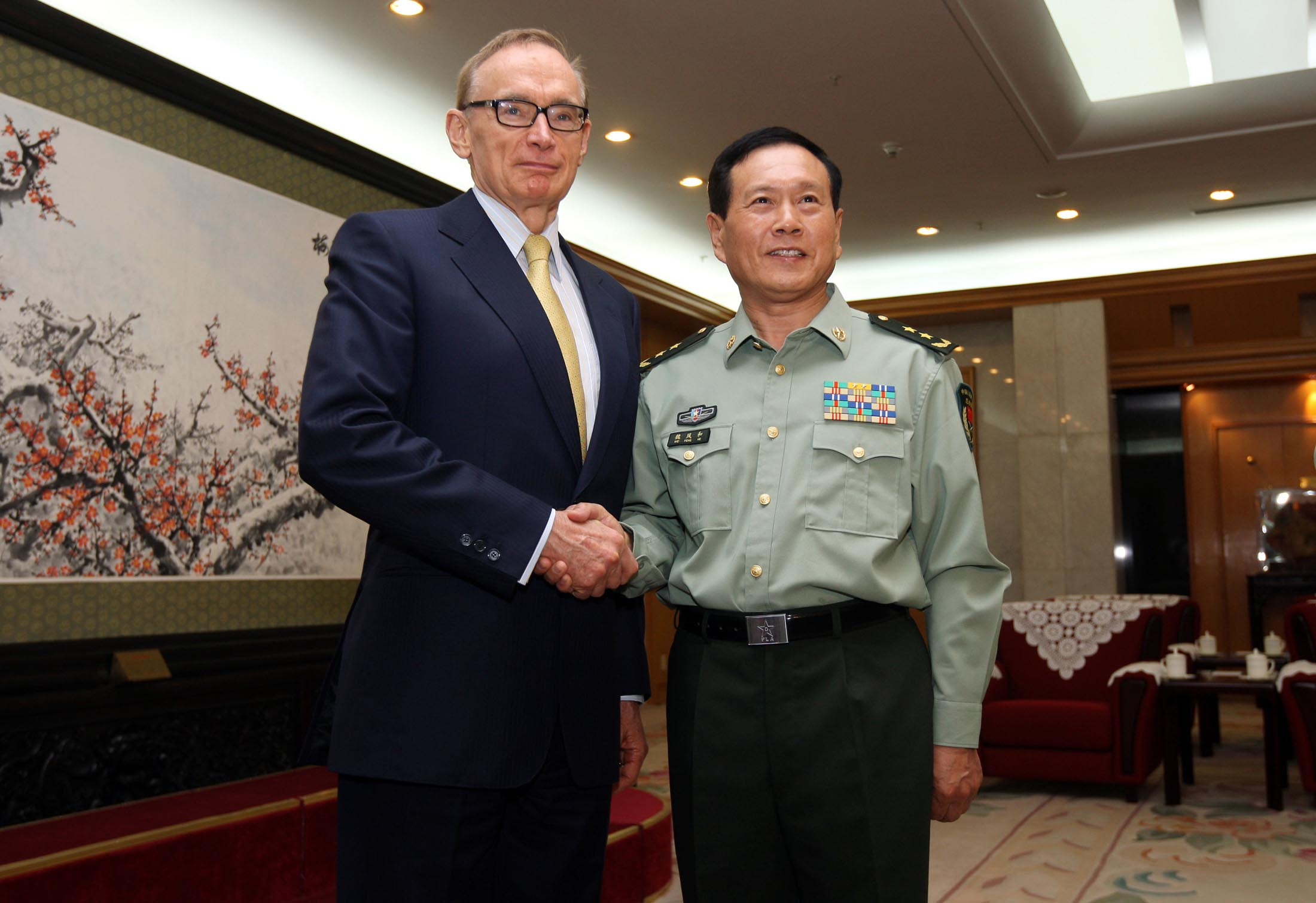 Foreign Minister Bob Carr with Lieutenant General Wei Fenghe, Deputy Chief of the General Staff of the People's Liberation Army in Beijing